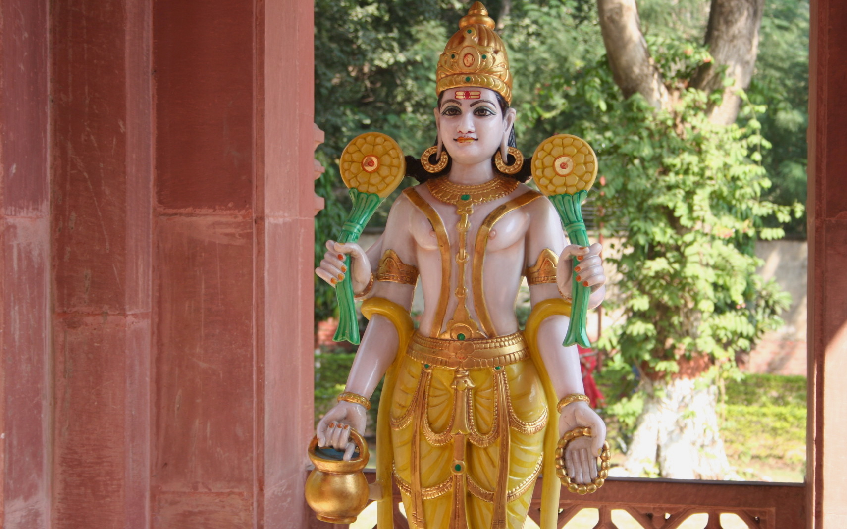 Birla Sun temple, Gwalior. Syncretism tour, Oct '11.